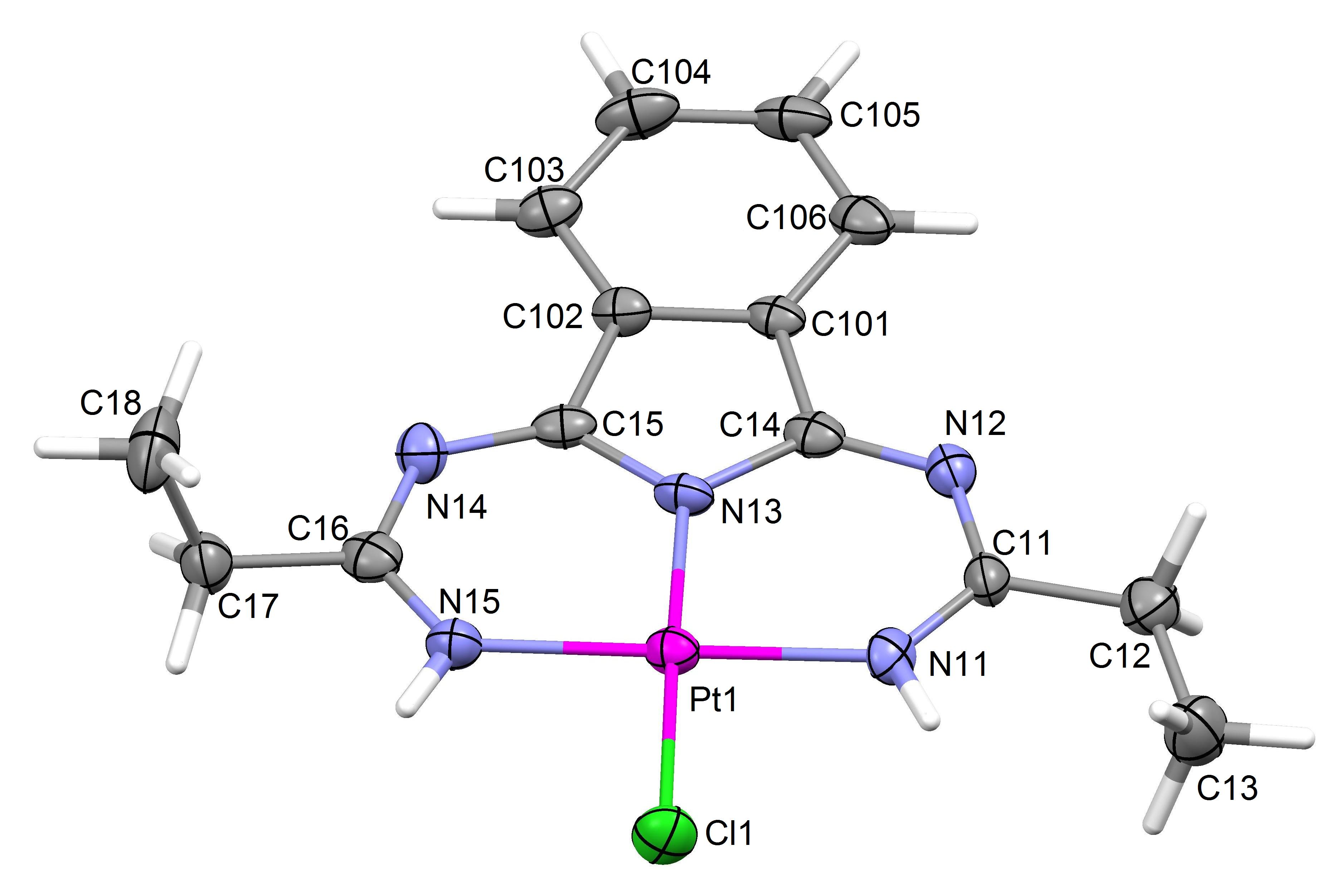 (1,3,5,7,9-pentaazanona-1,3,6,8-tetraenato)Pt(II) published in Inorg Chem 2012, 51, 10774.